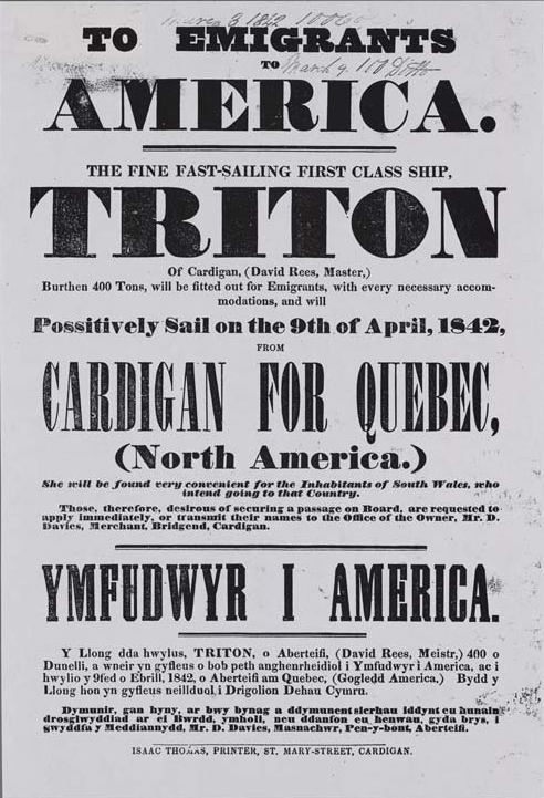 To Emigrants to America 1842